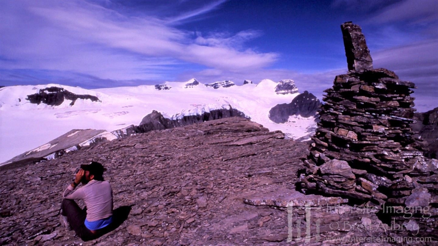 Arctomys Peak summit cairn with the Lyells in the background. Dave looks like he's looking at Division Mtn., while good views of Mt. Forbes would be 20⁰ or 30⁰ to his left.